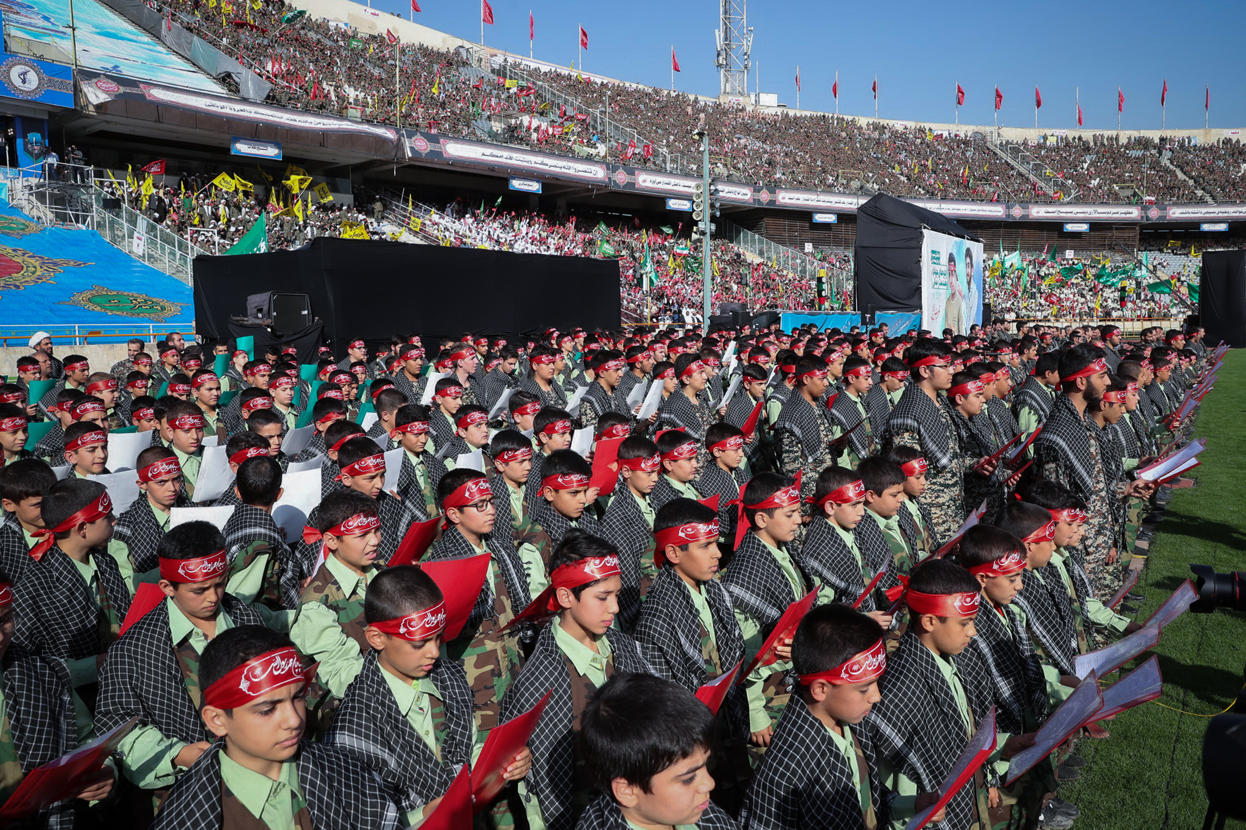 Great Conference of Basij members at Azadi stadium, 4 October 2018